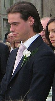 From left to right: Prince Félix of Luxembourg, Princess Alexandra of Luxembourg and Prince Guillaume, Hereditary Grand Duke of Luxembourg